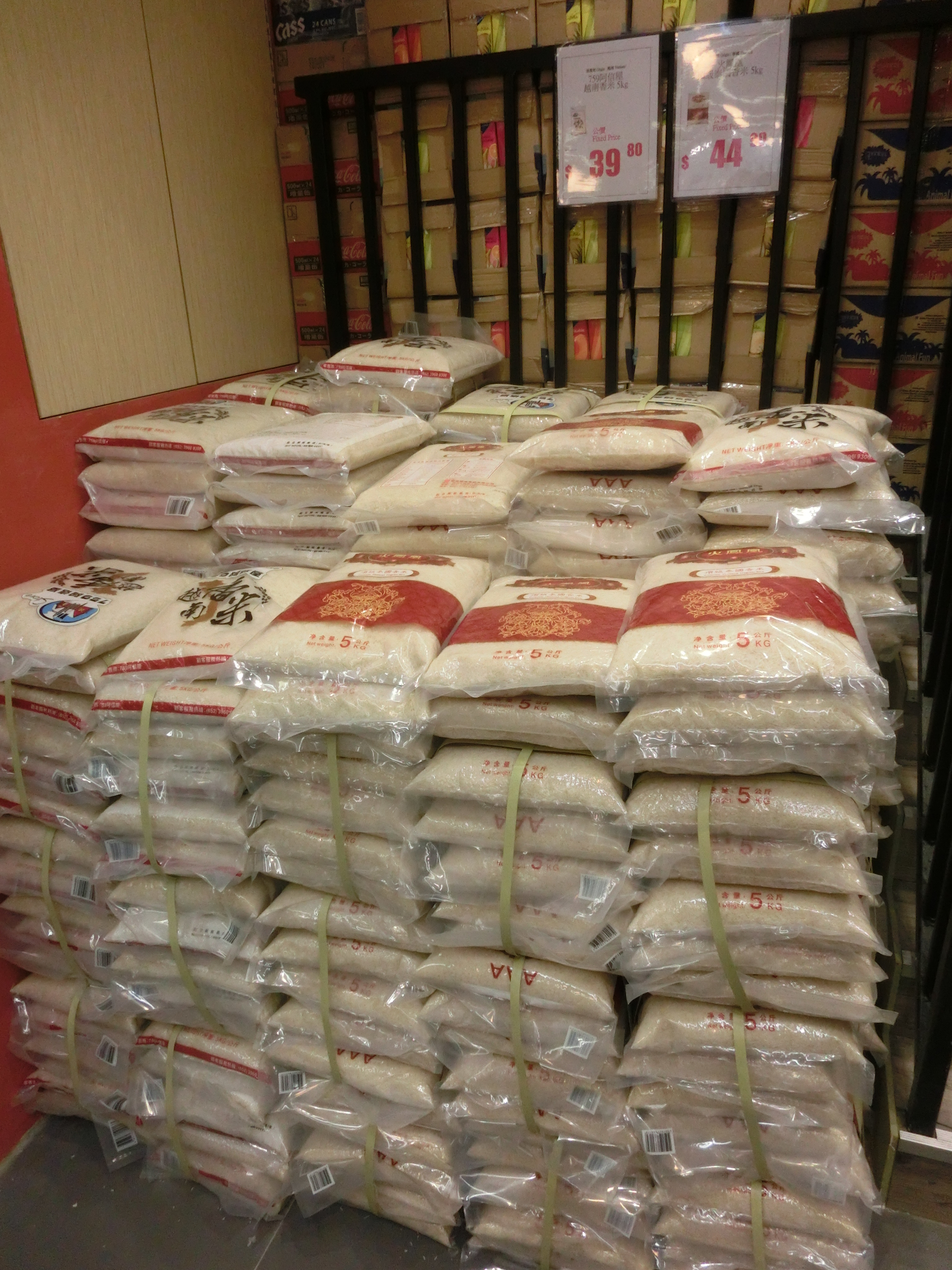 759阿信屋, 759 Store new opening in Queen's Road West, near Eastern Street, Sai Ying Pun, Hong Kong